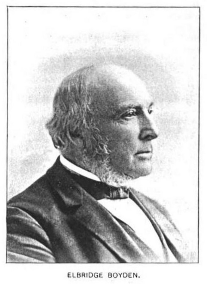 Photo portrait of Worcester, Massachusetts architect Elbridge Boyden (1810-1898), taken at an unknown date prior to 1898.